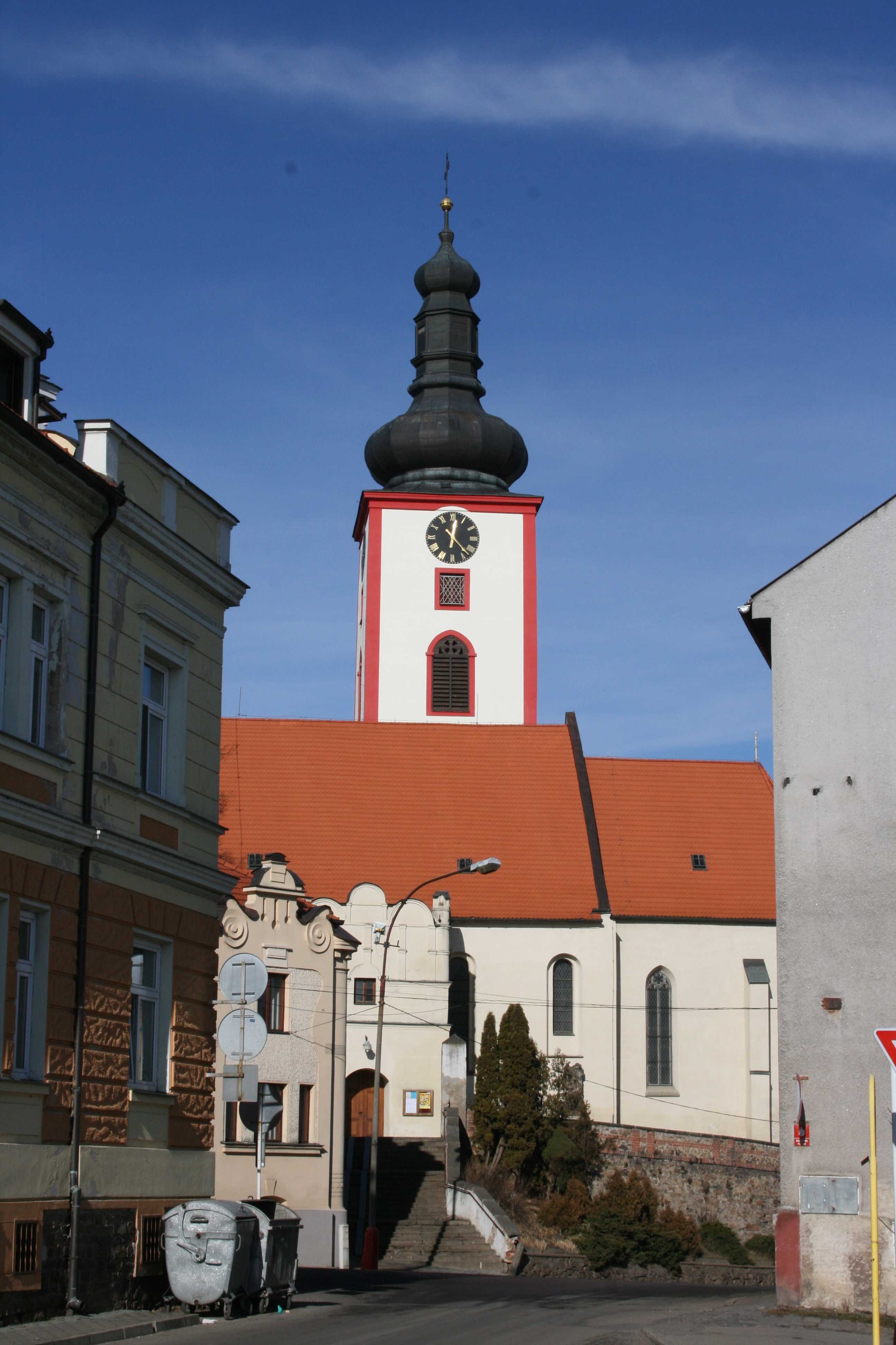 Town Veselí nad Lužnicí, Czech Republic.